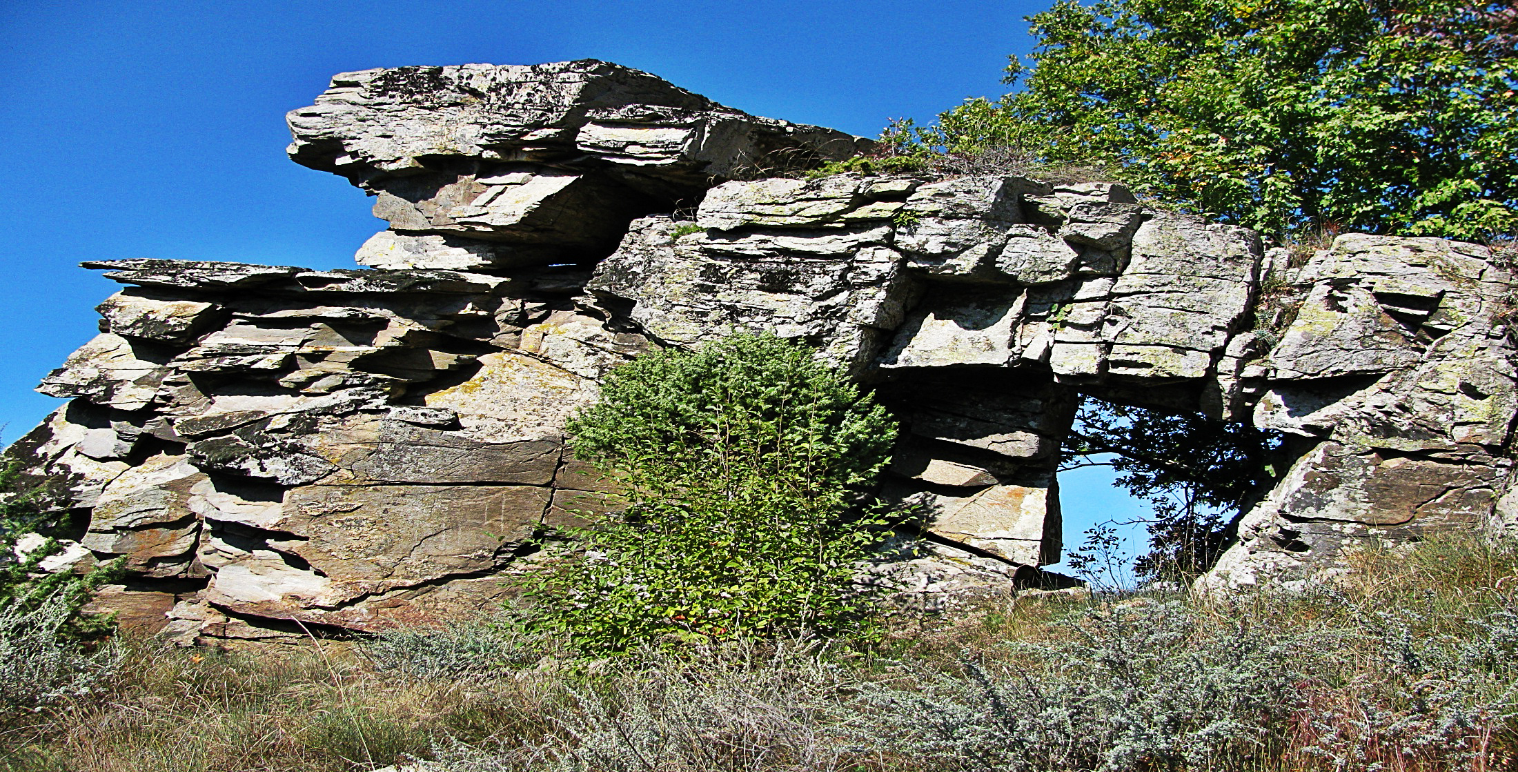 Tzraevi porti Kovachevica BG